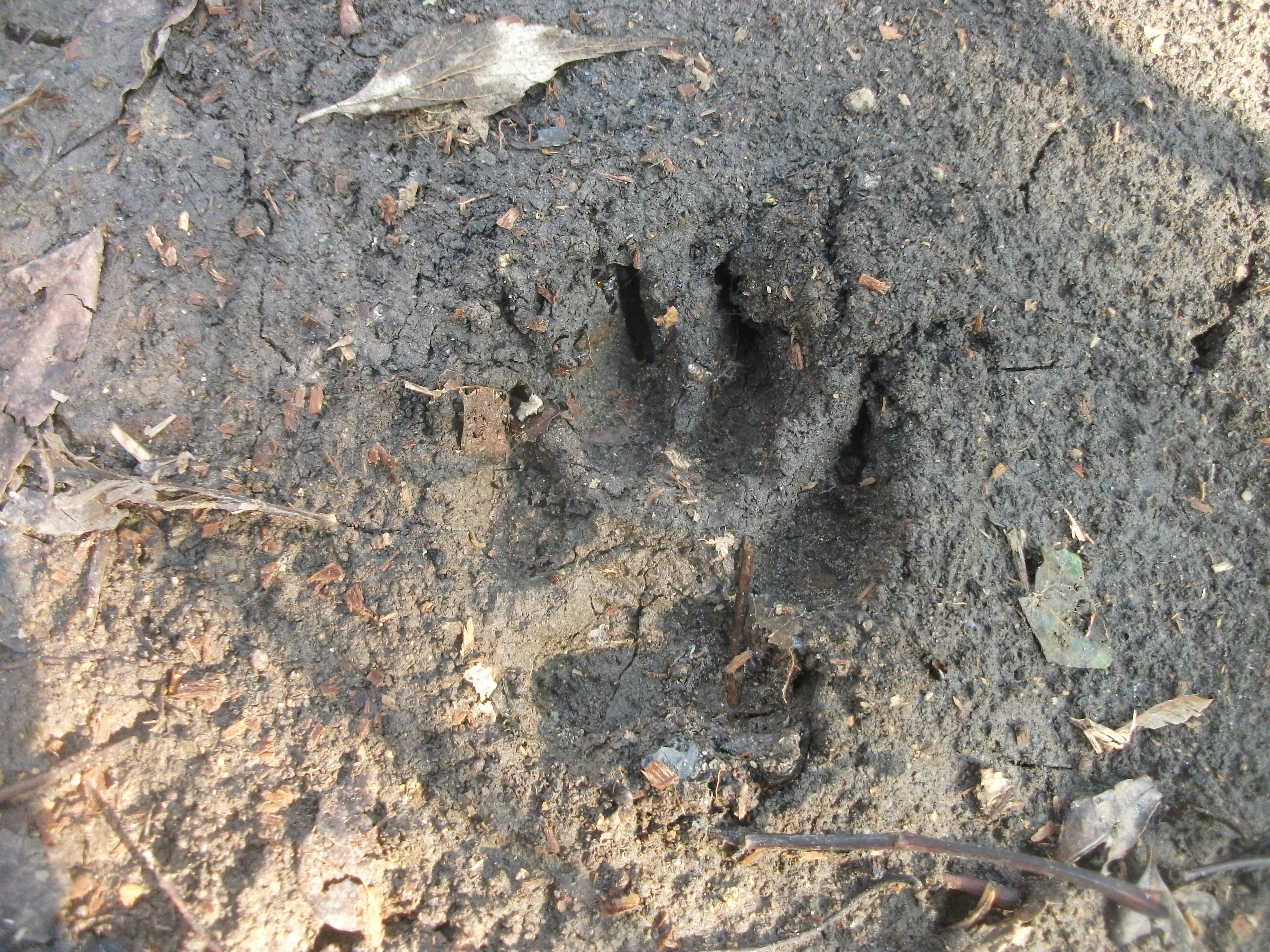 Animal's footprint, Zichyújfalu, Hungary.